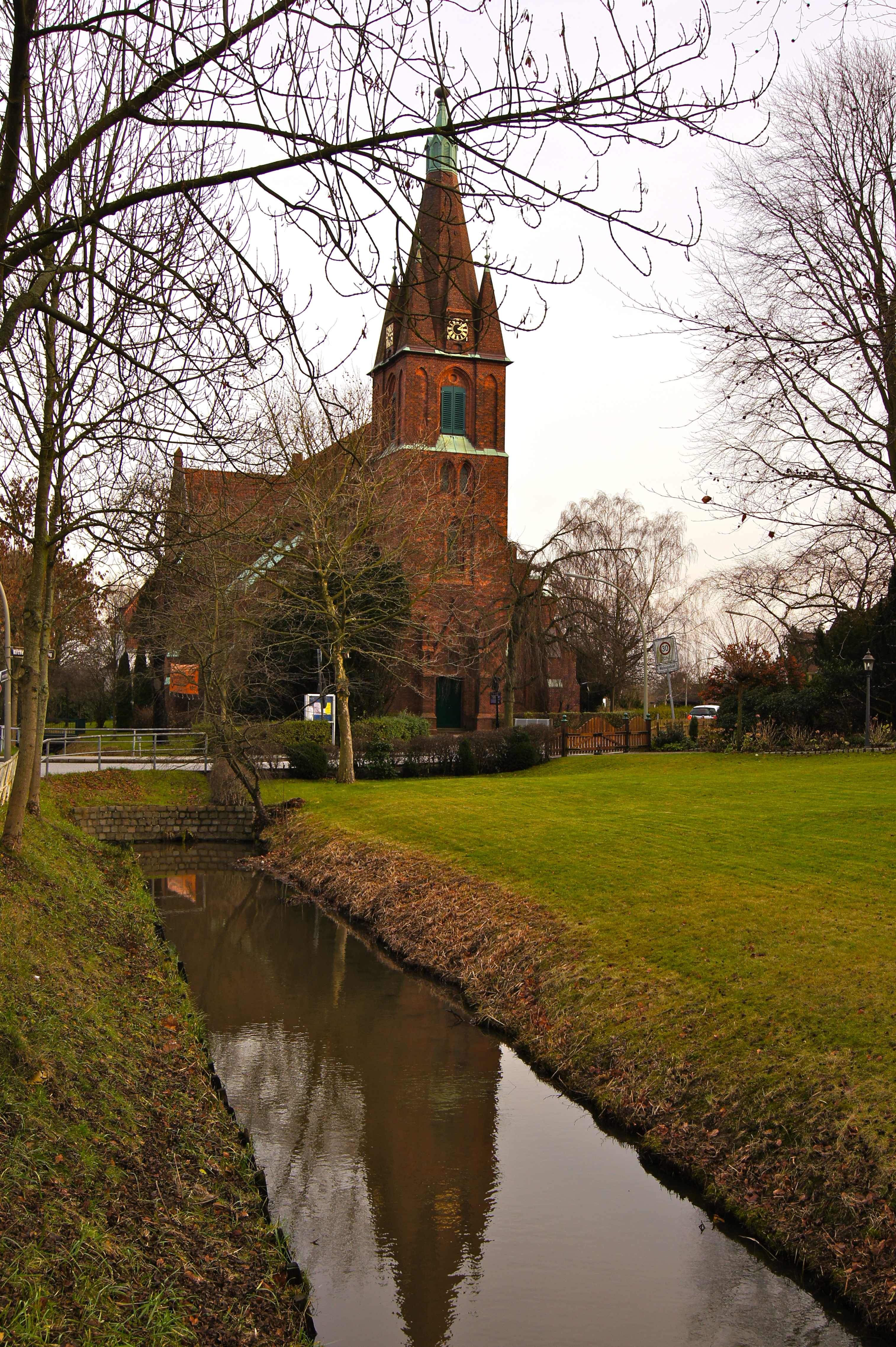 Hamburg (Finkenwerder), Germany: The Nicholas Church at the bank of the Finkenwerder Landscheide